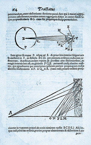 Refractions and reflectios in theory of the rainbow of Markantun de Dominis